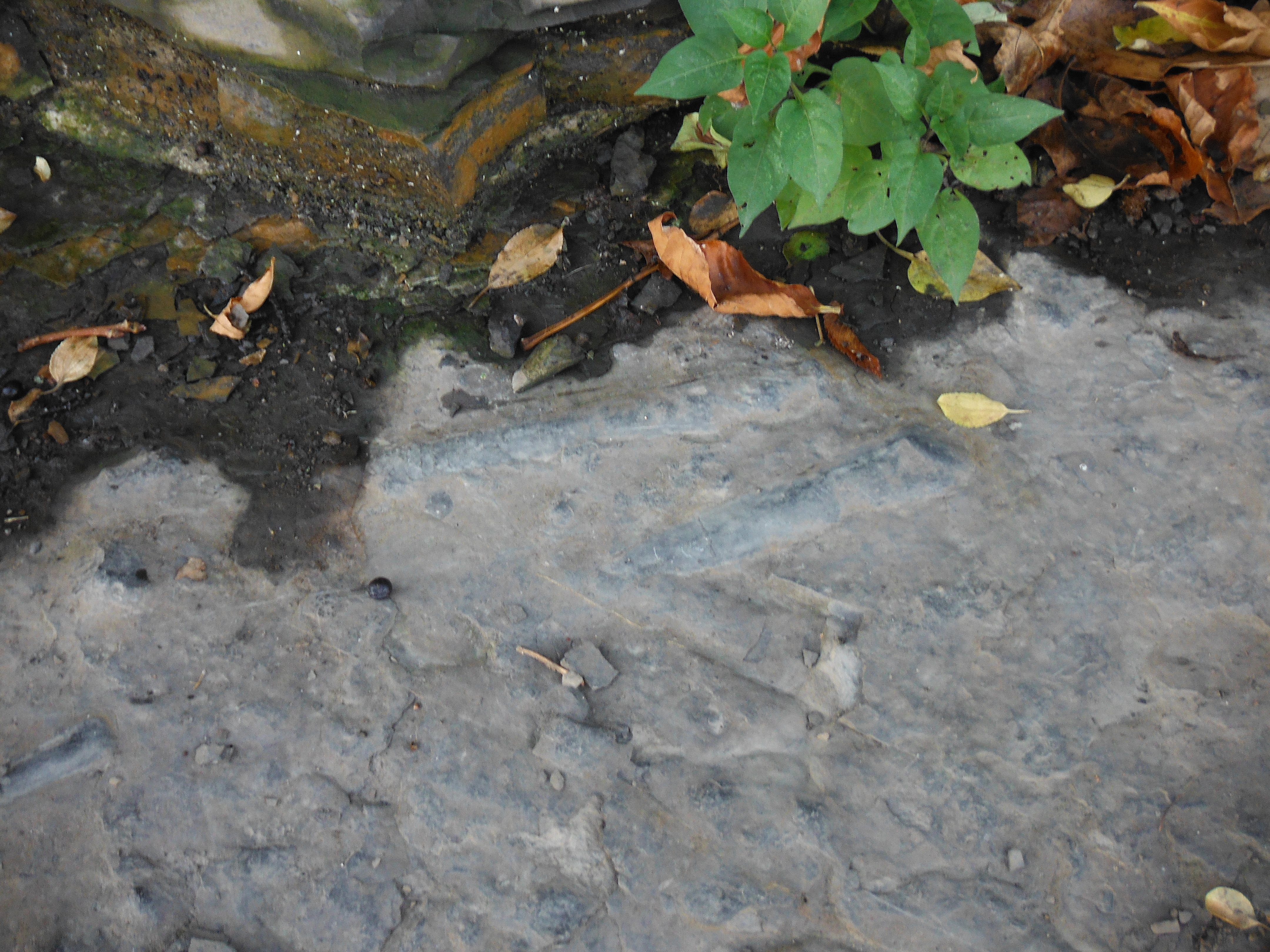 At rapides du cheval blanc or whitehorse rapids fossils can be seen.